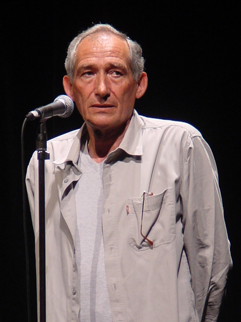 French film director Alain Corneau at the Yokohama French Film Festival, 19 June 2005